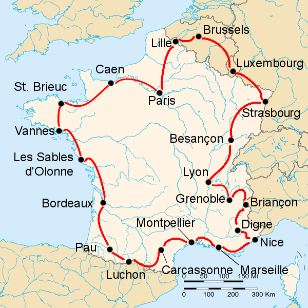 Route of the 1947 Tour de France, starting and finishing in Paris. The black dots are the cities that hosted a stage start and finish.